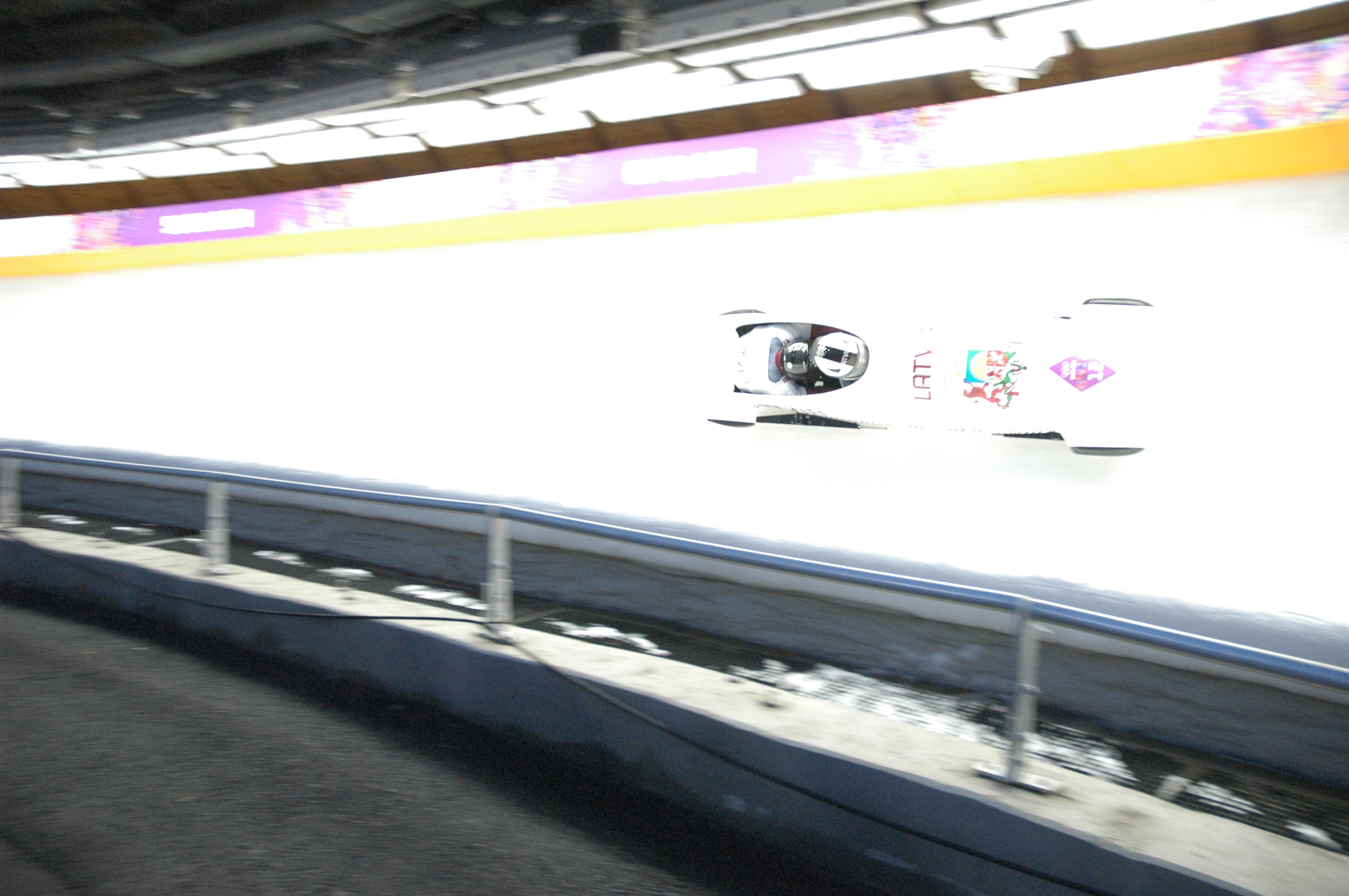 Two-man bobsleigh, 2014 Winter Olympics, Latvia